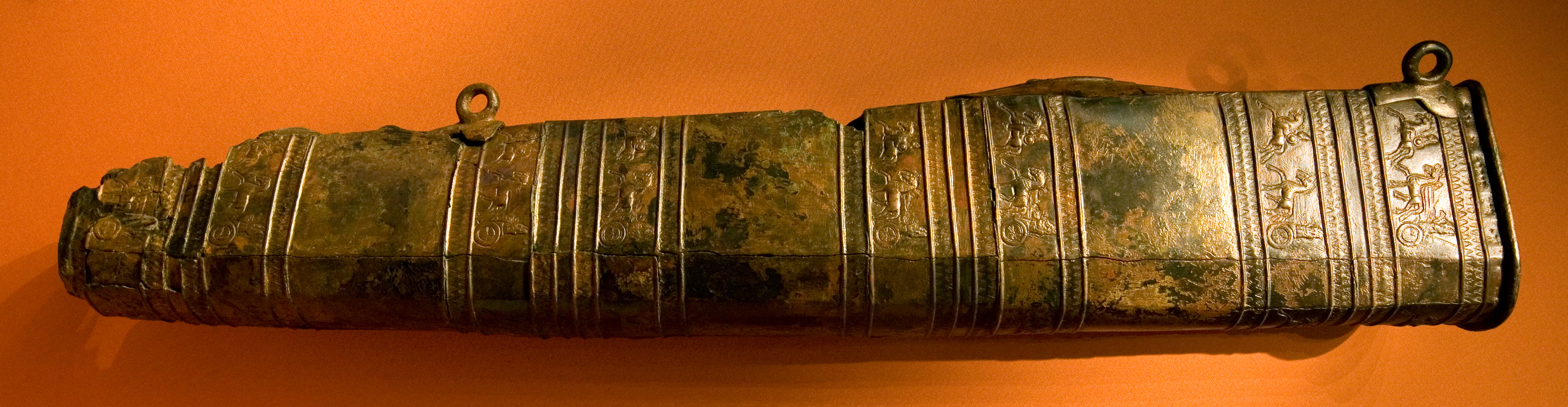 Quiver (belonged to Sarduri II)